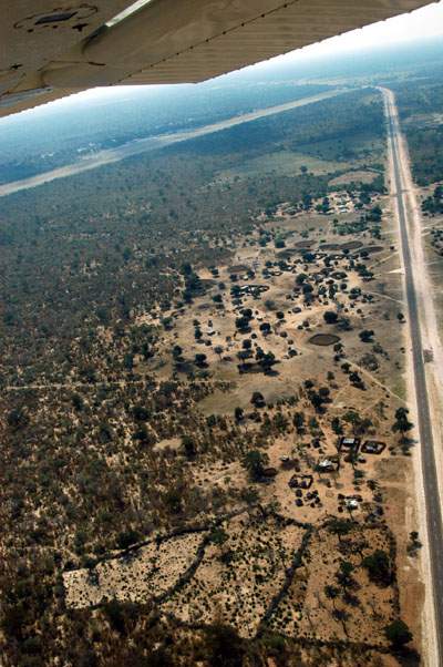 Close-up aerial photo of Crossing the Caprivi Highway on approach to Katima's Mpacha Airport